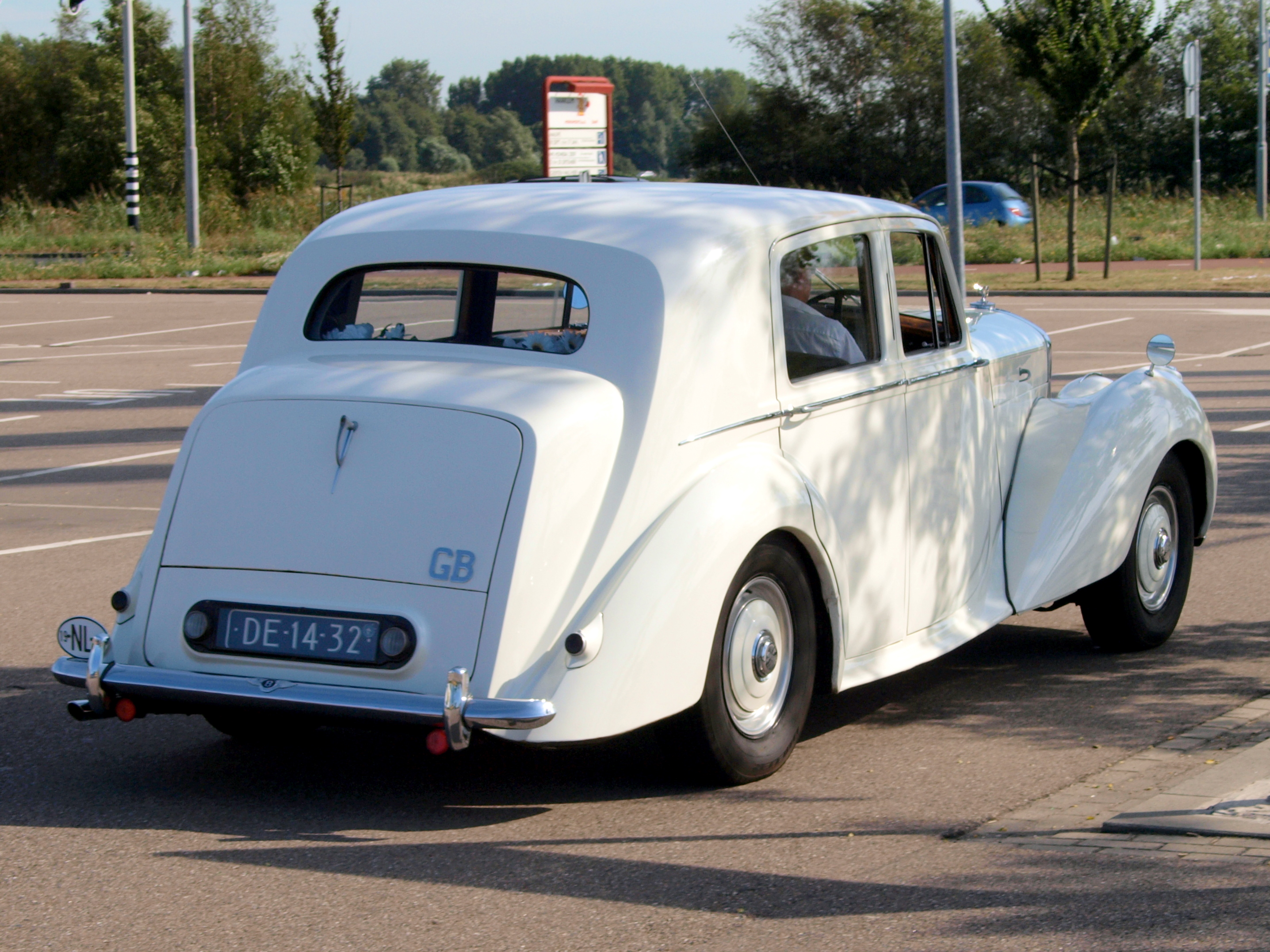 Bentley MK VI DE-14-32